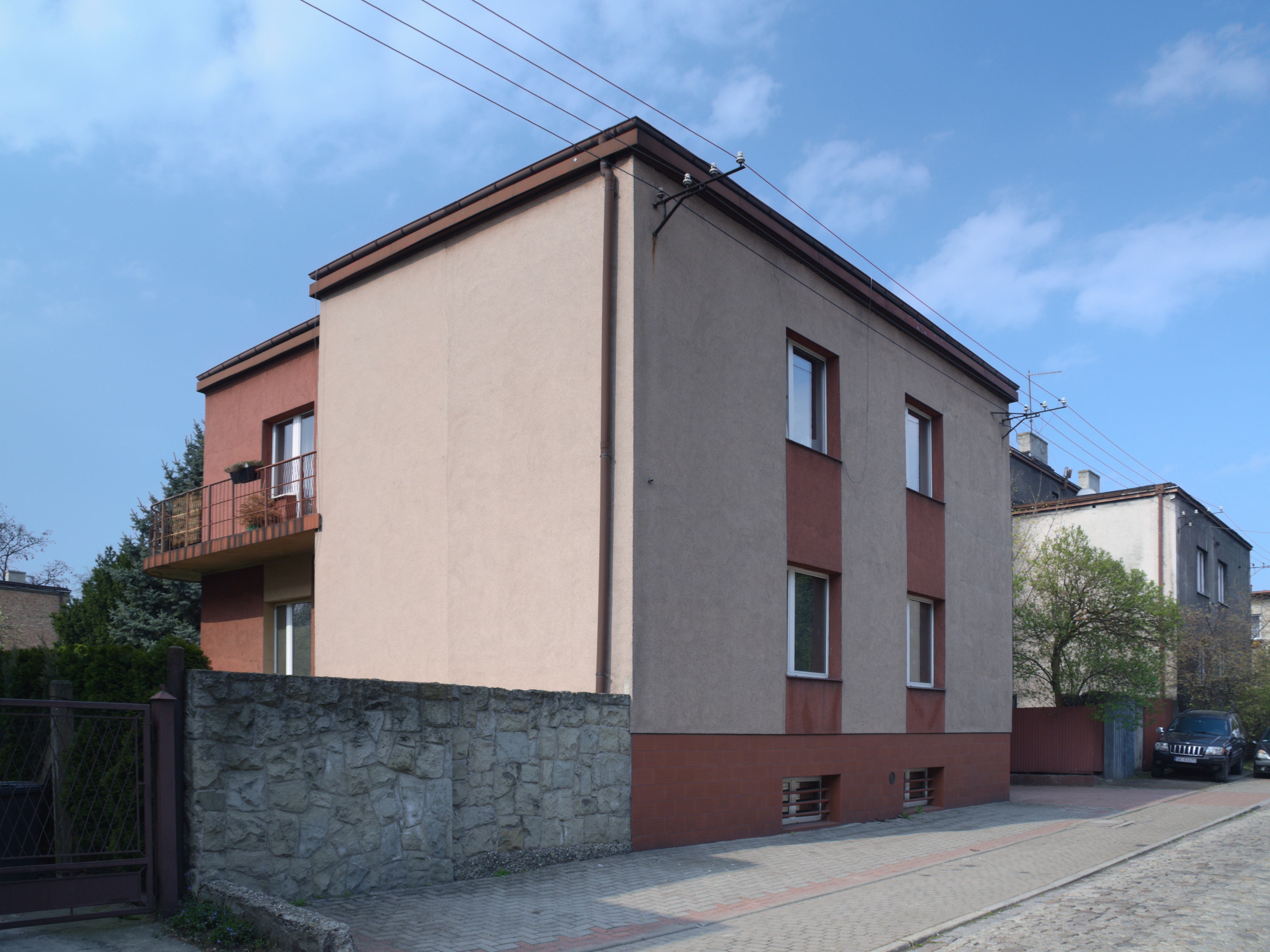 Chorzów, Wesoła 4 Street, church of the Free Christians